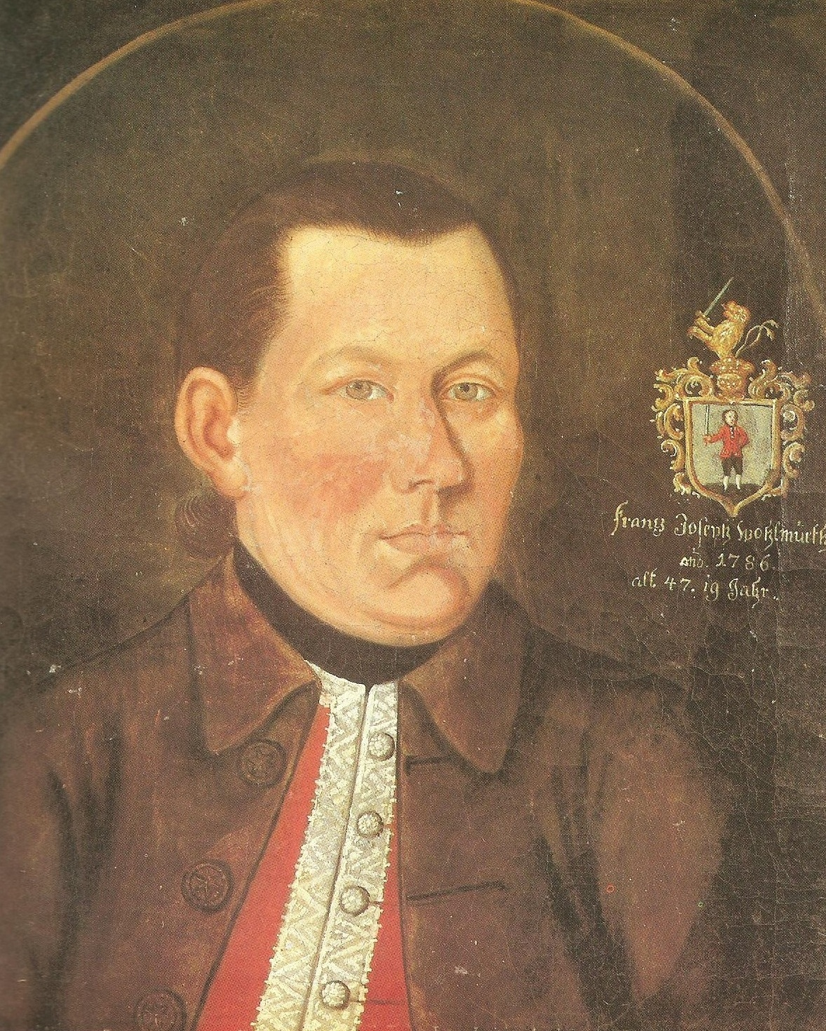 Franz Joseph Wohlmuth at the age of 48.